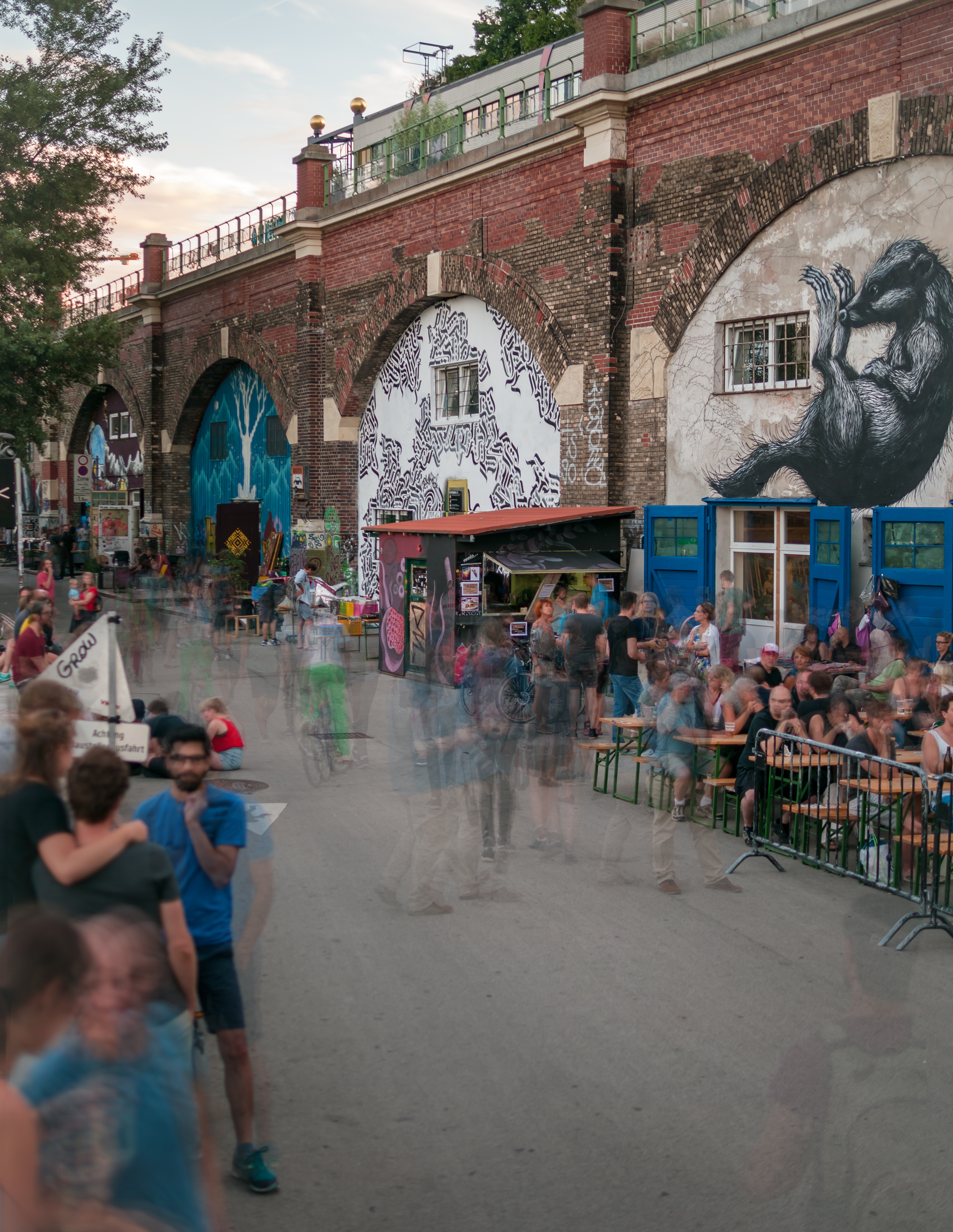 Photoworkshop Wien 2018